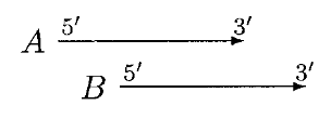 Test case 2